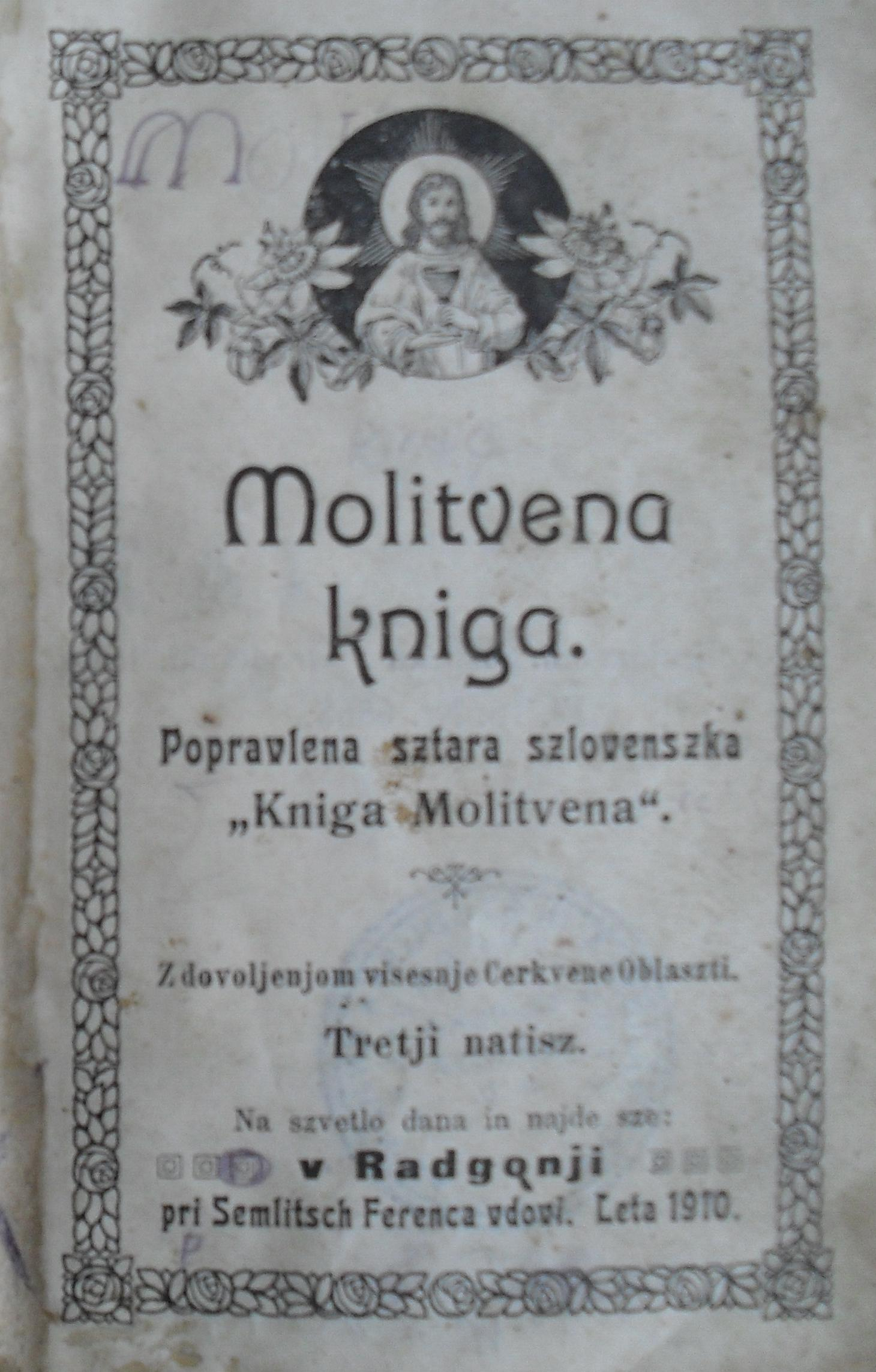 The Molitvena kniga in 1910 (from József Szakovics (1874-1930))